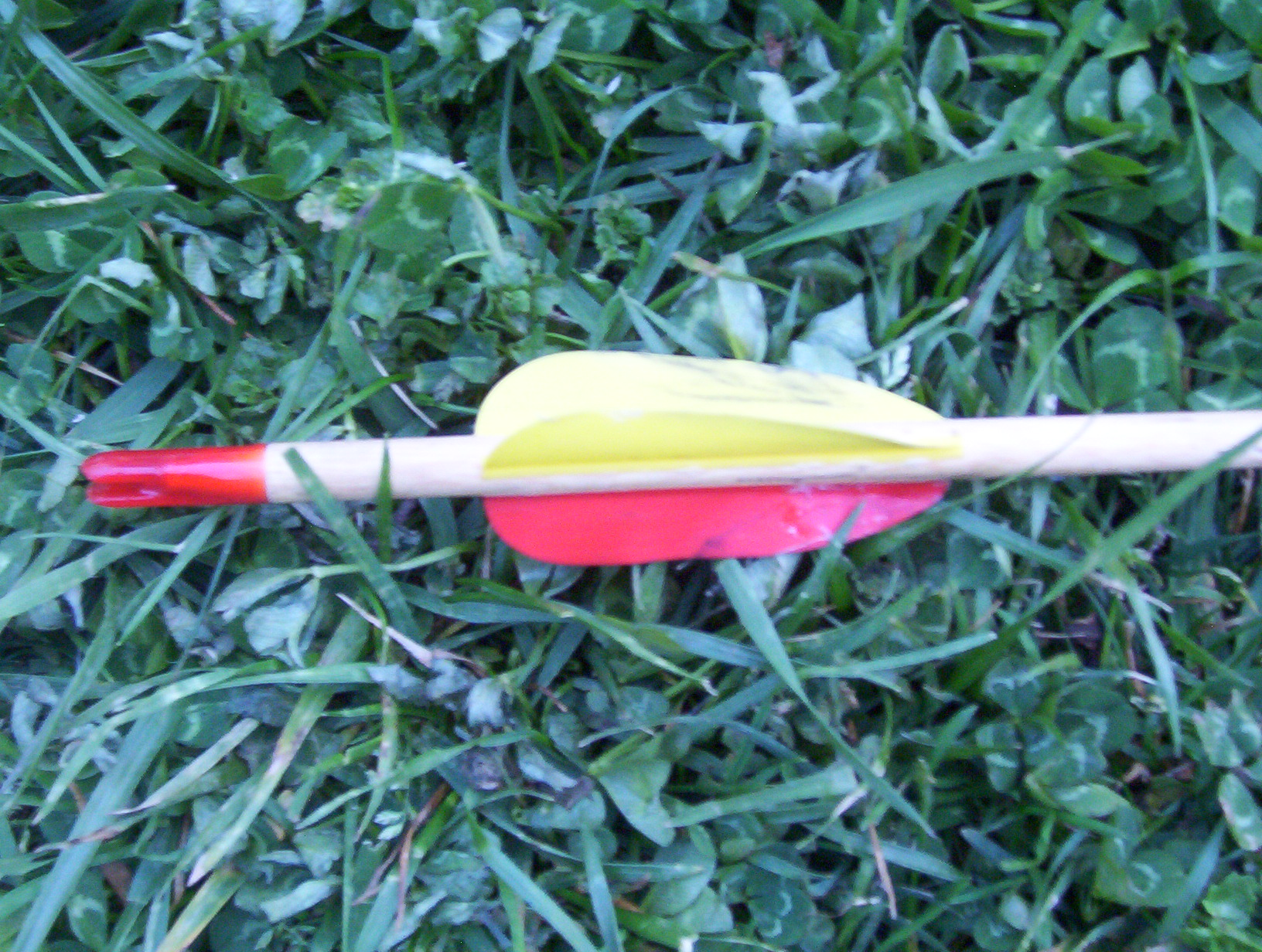 A picture, of an Arrow fletching taken with a digital camera. Taken: 14/8/2006 Taken By: User: Dfrg.msc Uploaded on: 14/8/2006 Uploader: User: Dfrg.msc Feel free to use this image anywhere and in anyway.